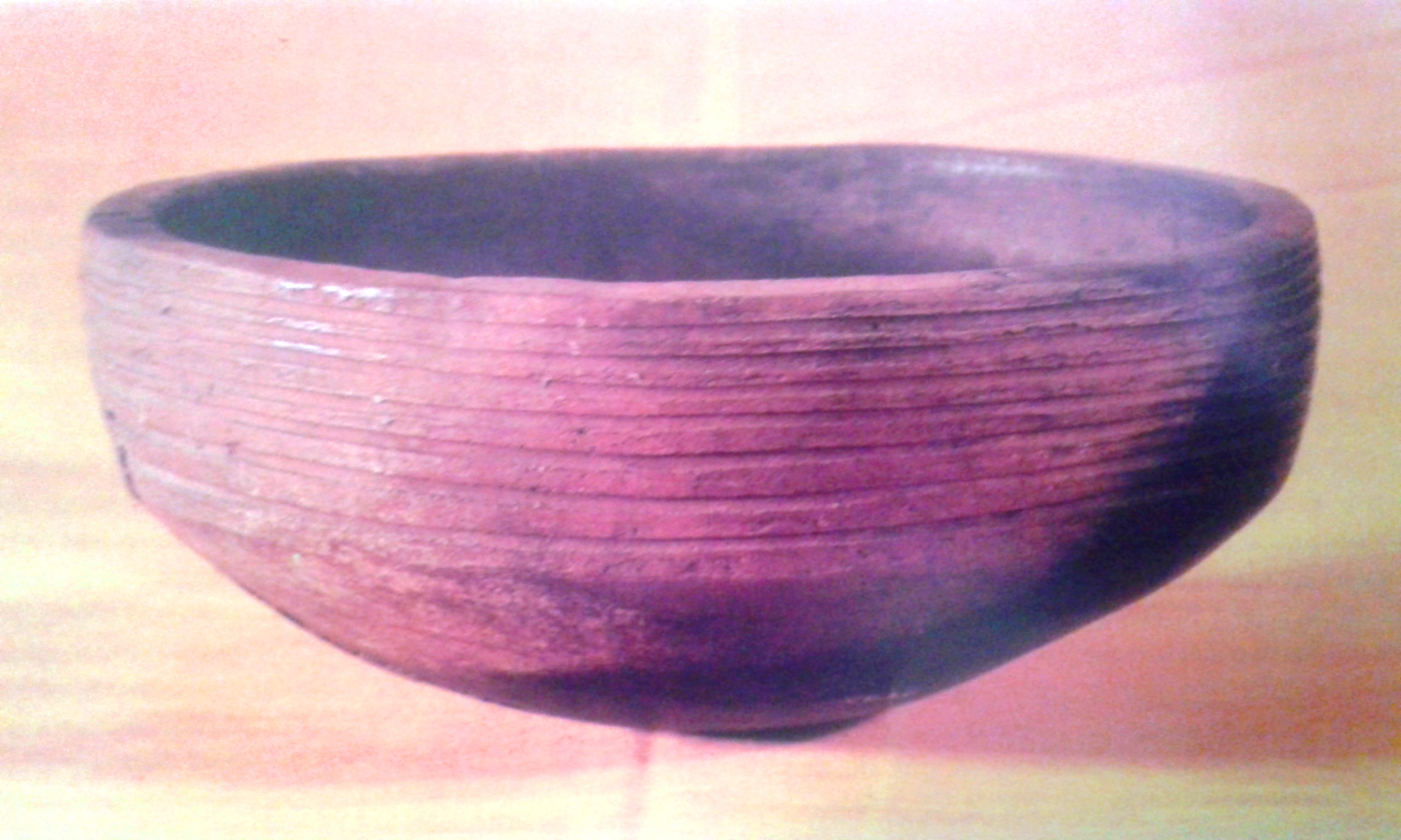 Cotocollao pottery